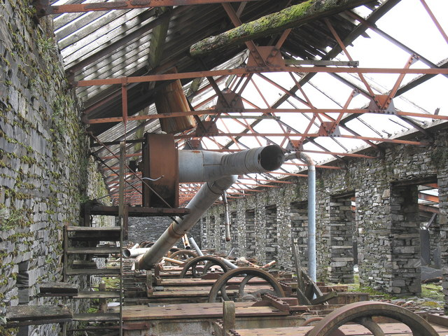 The single dust extractor fan at Sied Australia This Heath Robinson contraption extracted dust from all the saw tables and expelled it out through a short pipe stuck through a hole in the roof. This chimney can be seen in 286176. See also 286309 and 286201.